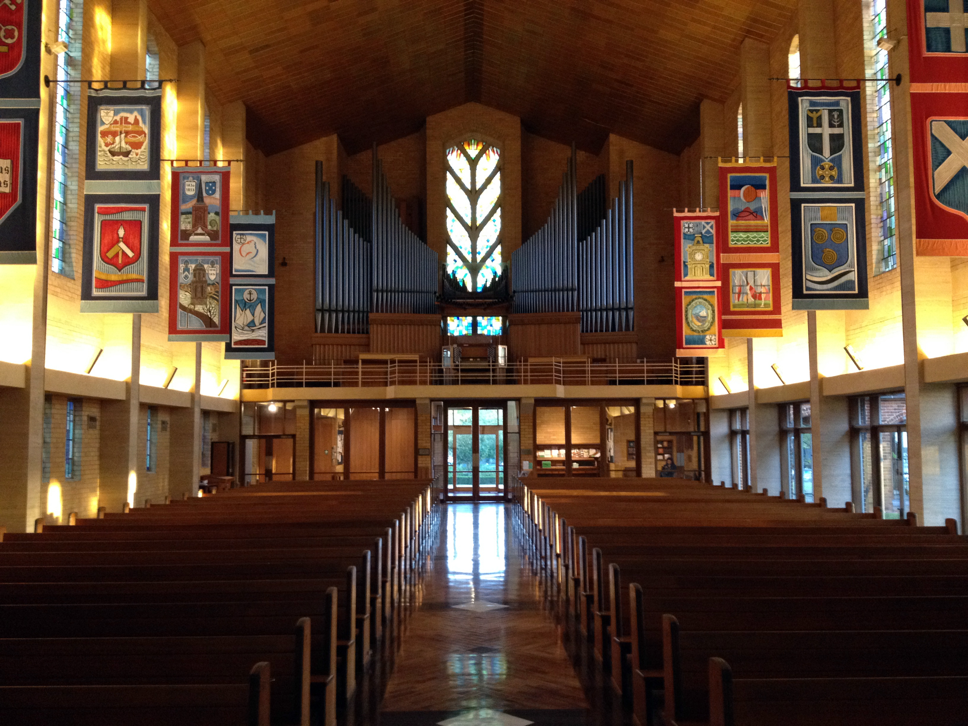 St Andrew's Church, Brighton West End Organ Case